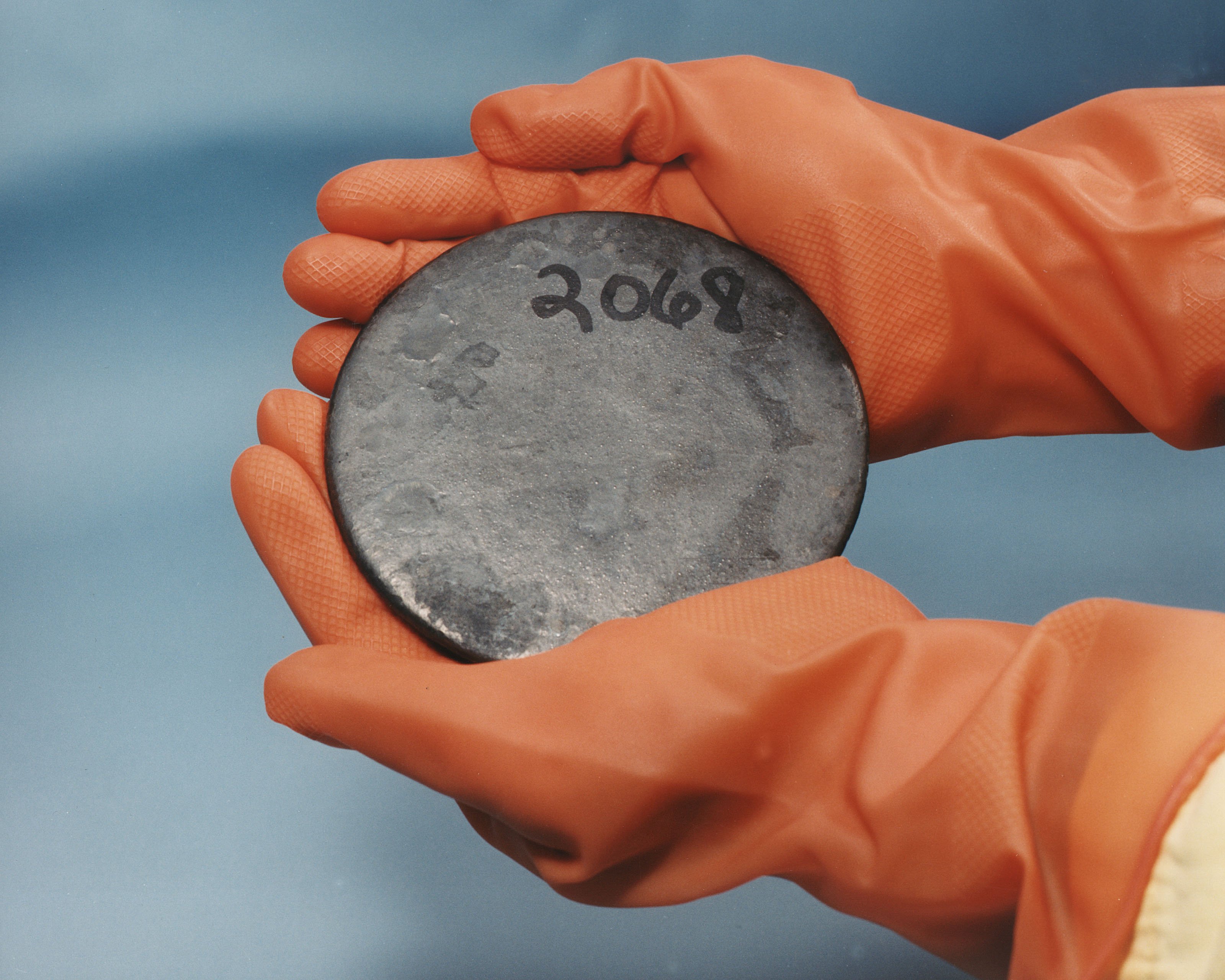 A billet of highly enriched uranium that was recovered from scrap processed at the Y-12 National Security Complex Plant. Original and unrotated.